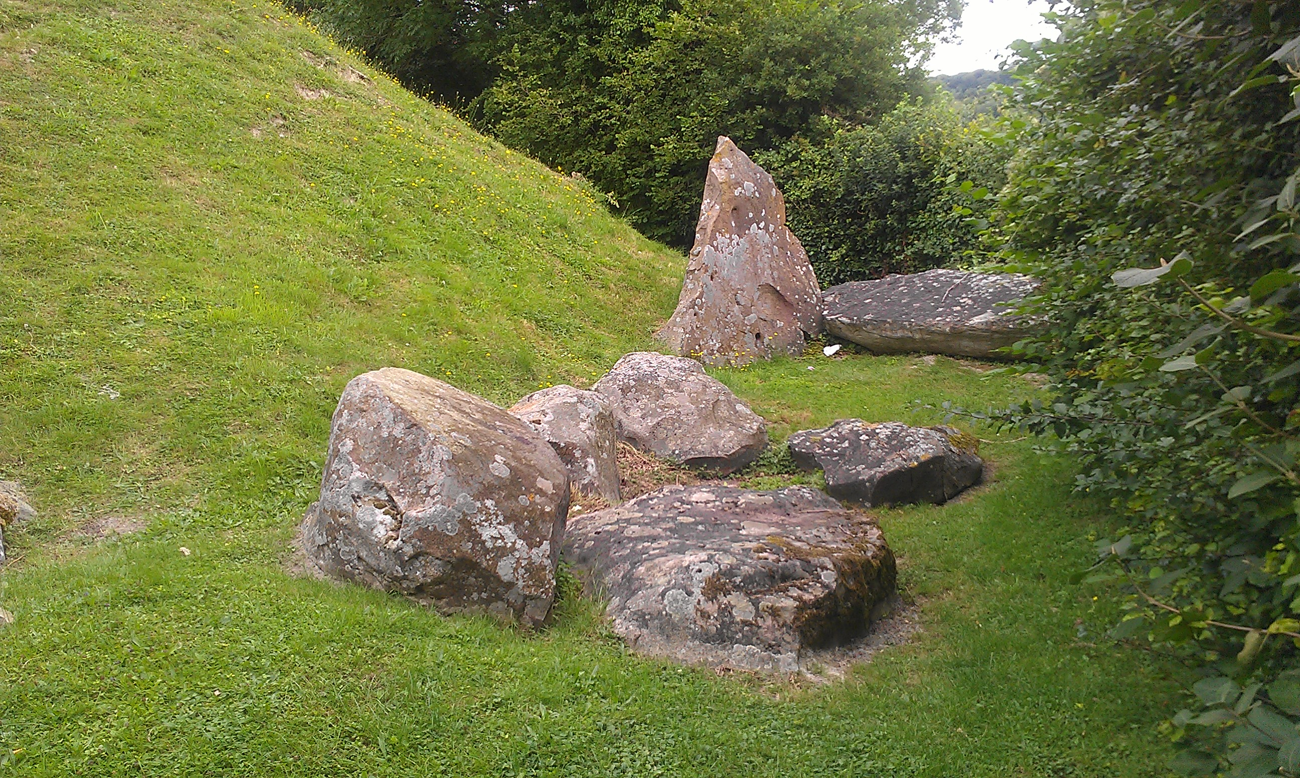 Megalithic stones that have collapsed from Coldrum Long Barrow, sitting at the bottom of the hill on which the Neolithic monument is situated.